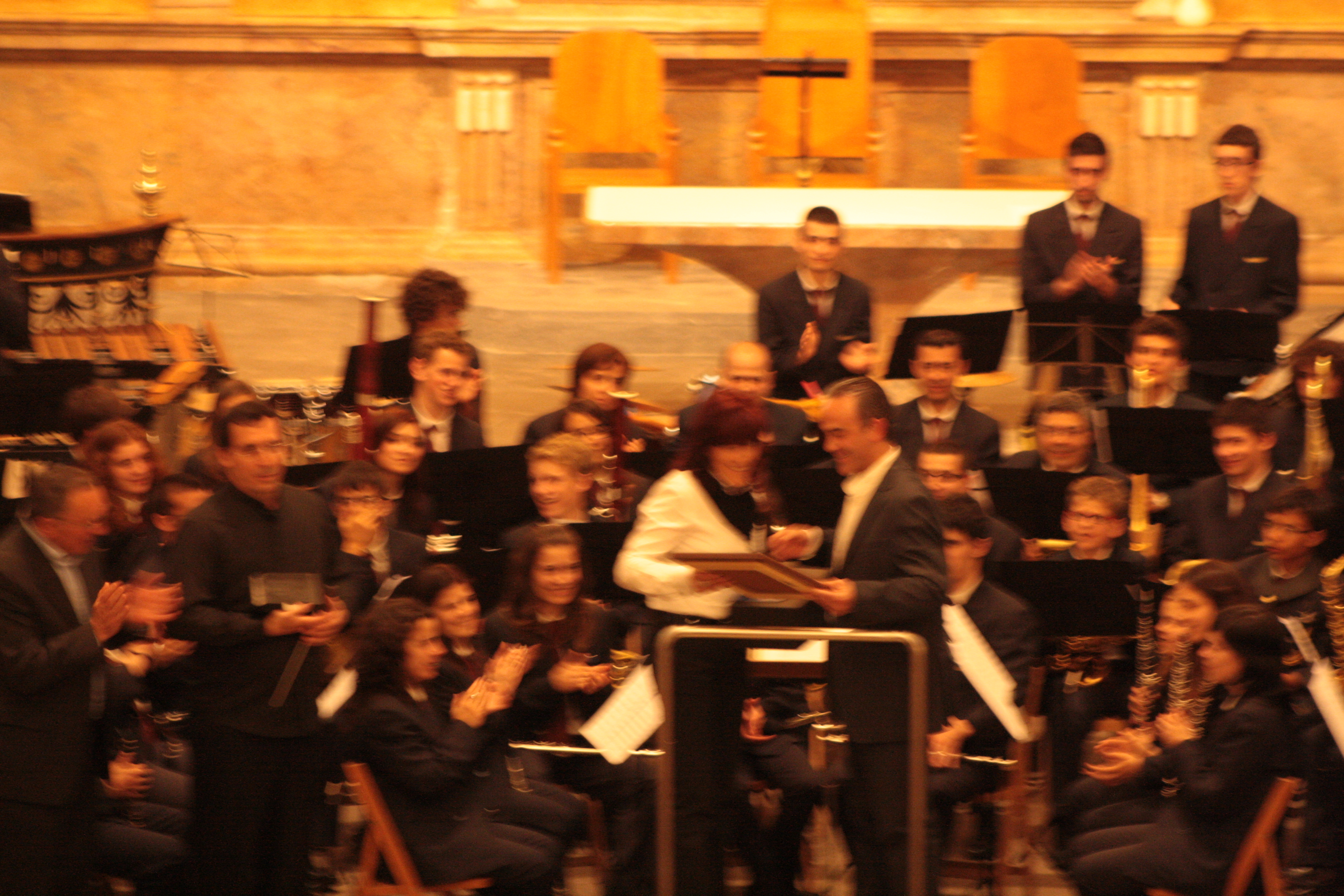 Banda de Música de Loureiro in a concert in Elgoibar